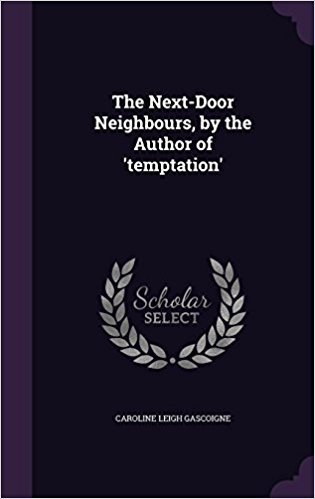 A book by Caroline Leigh Gascoigiene